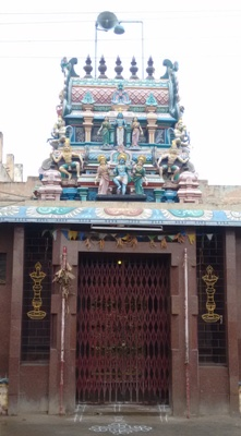 ThanjavurManambuchavadi navaneethakrishnan temple தஞ்சாவூர்மானம்புச்சாவடி நவநீதகிருஷ்ணன்கோயில்